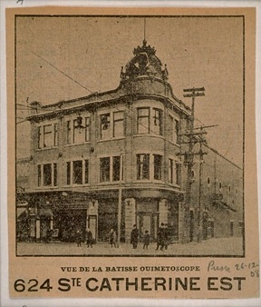 Advertisement taken from the December 26 1908 issue of La Presse showing the Ouimetoscope movie theatre.